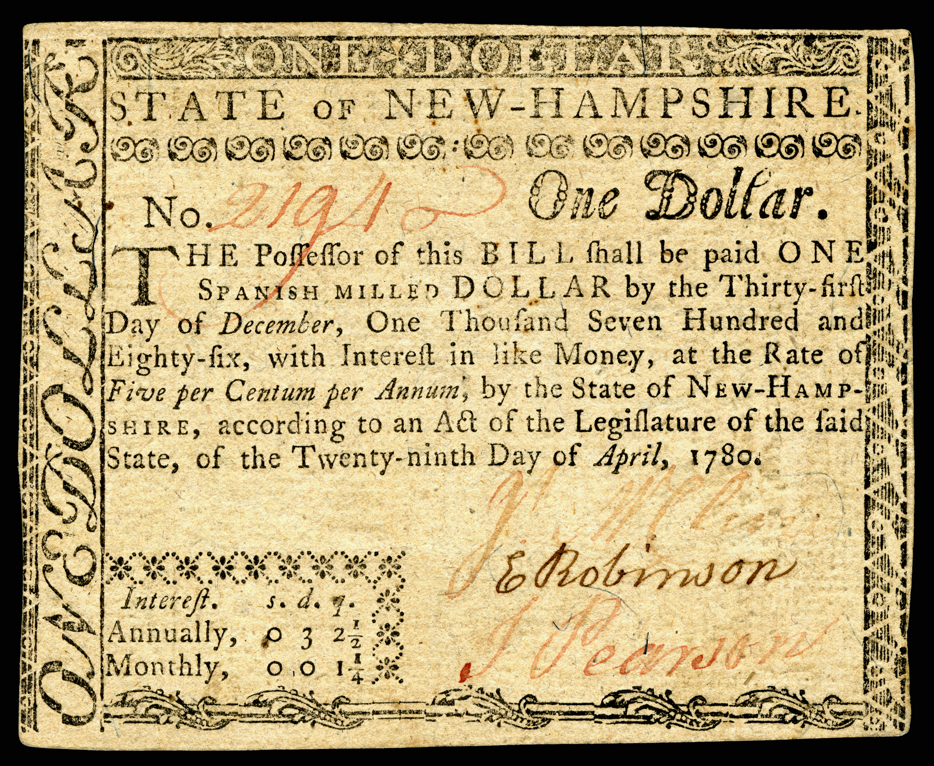 $1 Colonial currency from the Province of New Hampshire. Signed by James McClure, E. Robinson, Joseph Pearson, and John Taylor Gilman (rev).(Friedberg Colonial ref# NH-179).